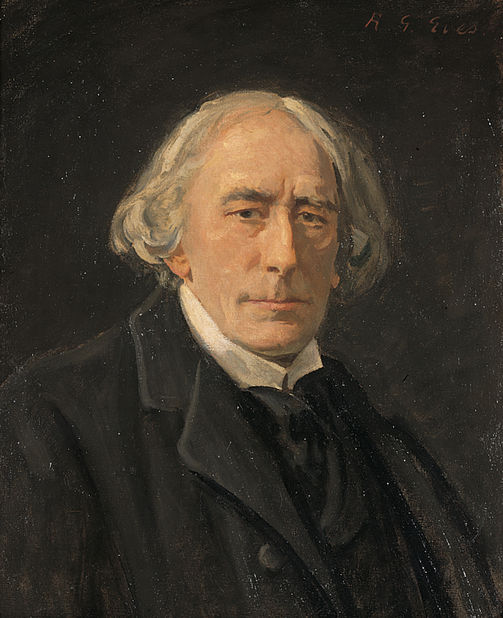 A circa 1905-10 portrait of Sir Henry Irving (6 February 1838 – 13 October 1905), an English stage actor who was the first actor to be awarded a knighthood. Irving is thought to have been the inspiration for the title character in Bram Stoker's 1897 novel Dracula.